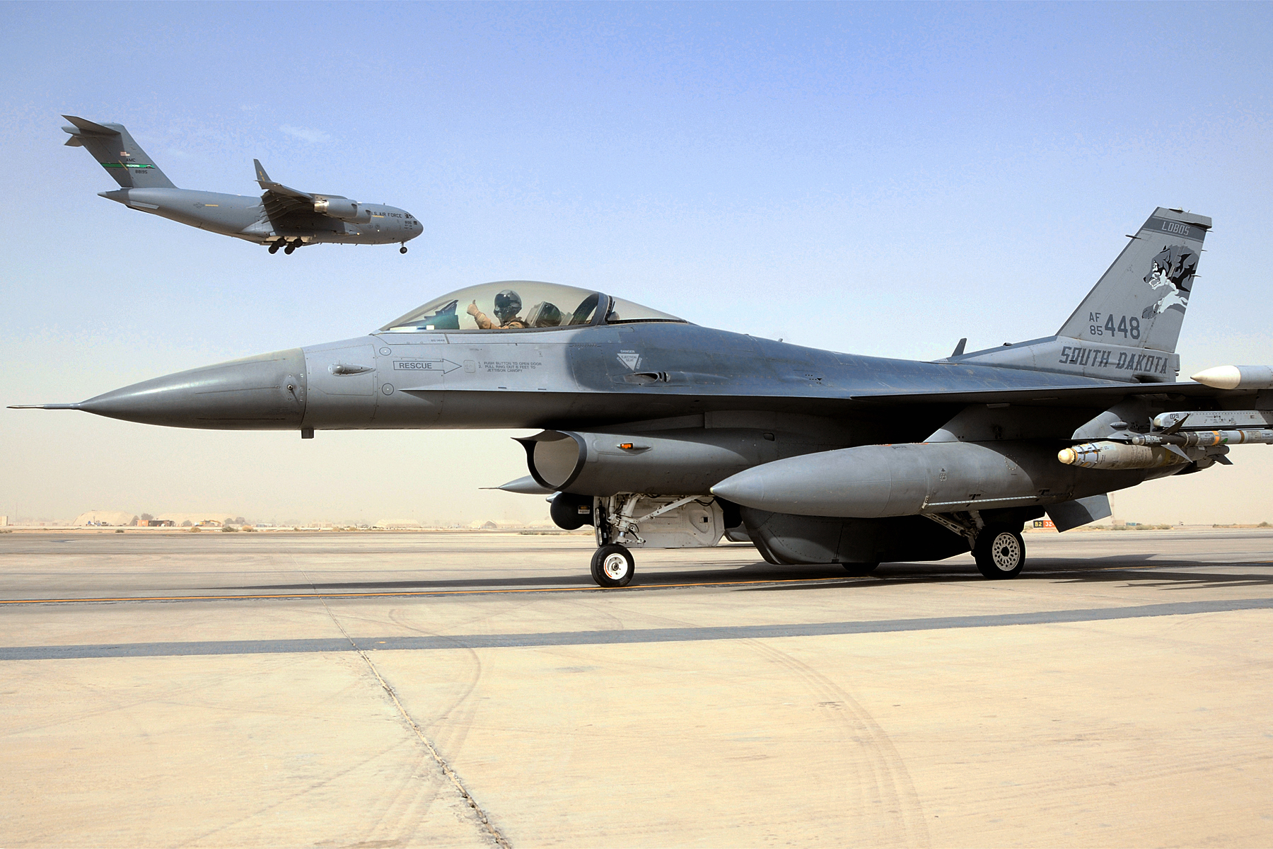 Capt. Eric Cleveringa from the 175th Fighter Squadron, 114th Fighter Wing, South Dakota Air National Guard, prepares to launch an U.S. Air Force General Dynamics F-16C Block 30A Fighting Falcon (s/n 85-1448) for a mission on 31 July 2010, from Joint Base Balad, Iraq. A Boeing C-17A Globemaster III (s/n 08-8915) is landing in the background.